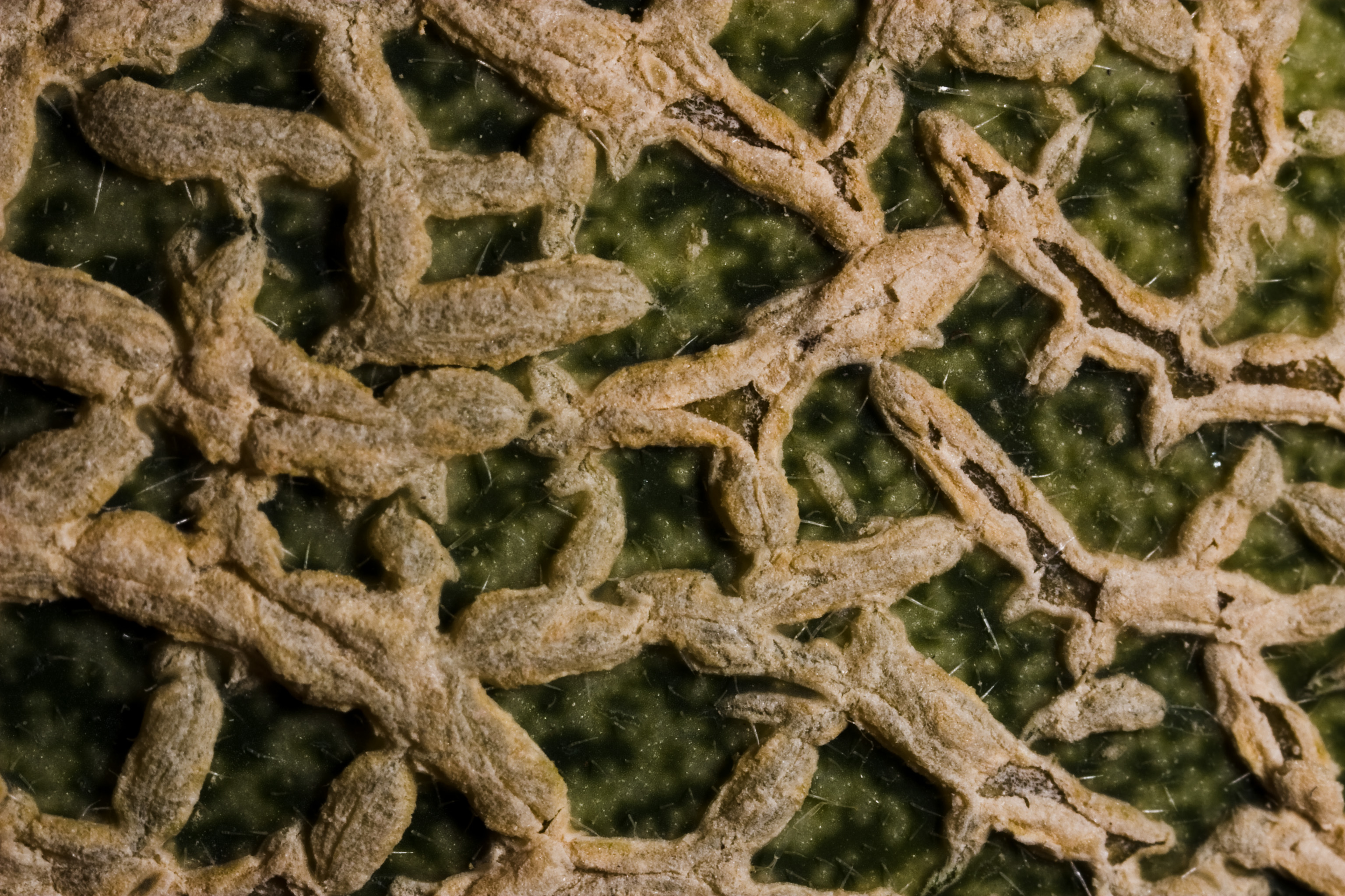 A macro photo of the skin of a North American Cantaloupe. Photo taken from Shifting Pixel.